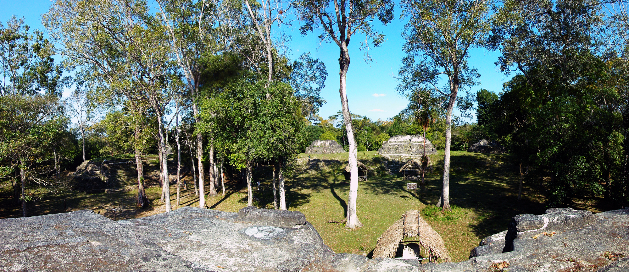 Panoramic view of the Group E, taken from the top of the temple of Masks in Uaxactun